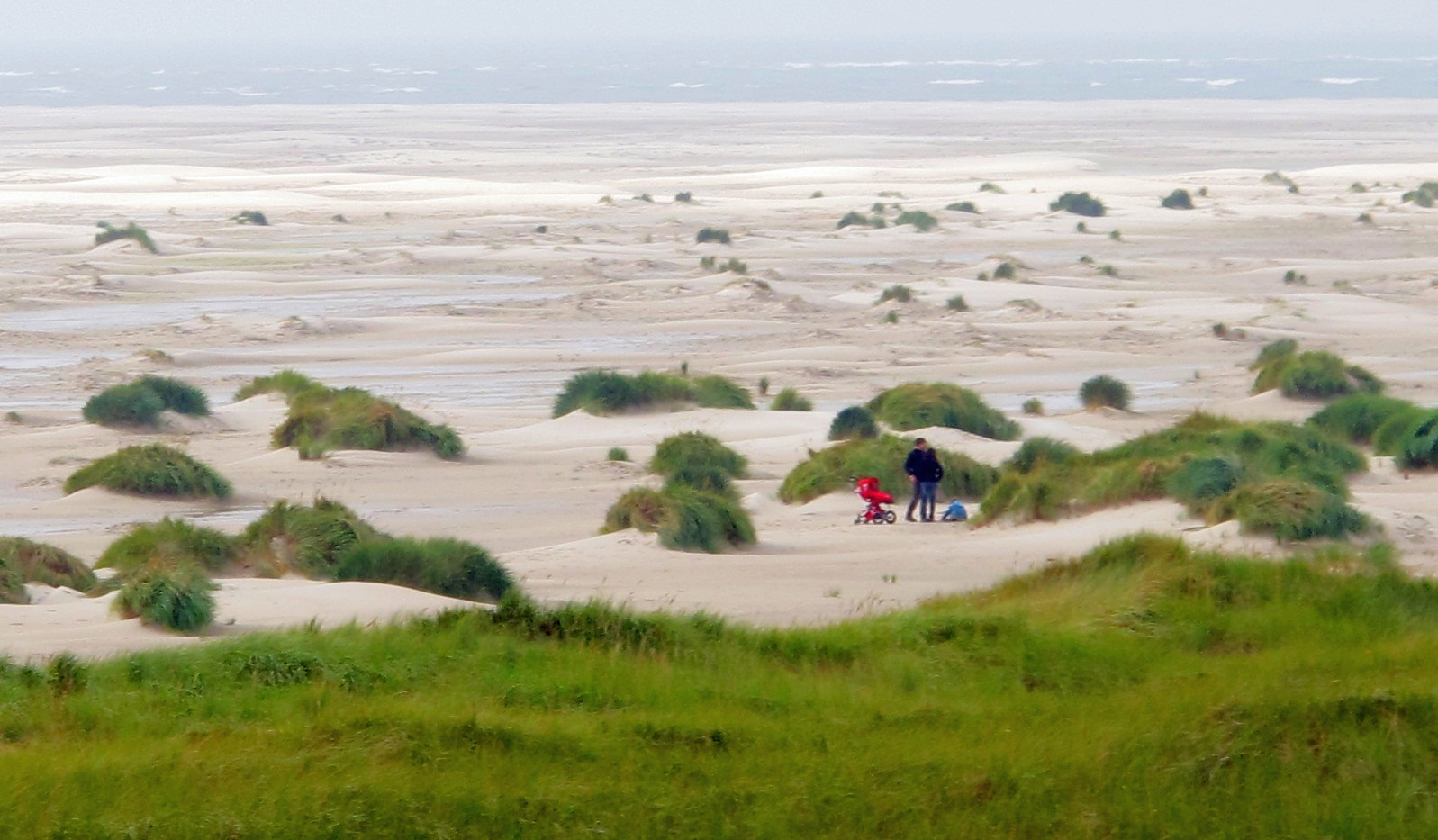 Landscape of primary dunes on the island Amrum